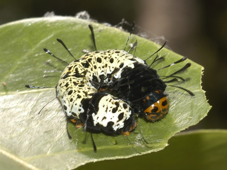 Final instar larva of Chrysiridia rhipheus photographed at Vohitaly, Makira, on leaf of Omphalea oppositifolia, with its own silk.